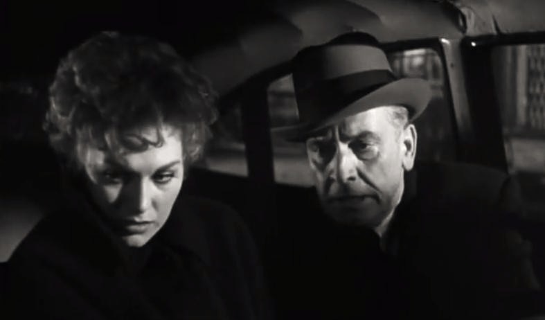 Kim Novak & Fredric March in Middle of the Night - trailer (cropped screenshot)